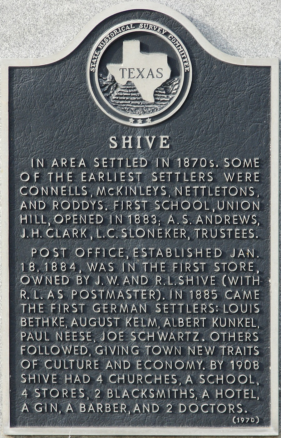 Texas Historical Commission marker for Shive, Texas Located at SH 221 and CR 510 Erected 1970. Inscription: Shive In area settled in 1870s. Some of the earliest settlers were Connells, McKinleys, Nettletons, and Roddys. First school, Union Hill, opened in 1883; A. S. Andrews, J. H. Clark, L. C. Slonekar, trustees. Post office, established Jan. 18, 1884. was in the first store, owned by J. W. and R. L. Shive (with R. L. as postmaster). In 1885 came the first German settlers: Louis Bethke, August Kelm, Albert Kunkel, Paul Neeses, Joe Schwartz. Others followed, giving town new traits of culture and economy. By 1908 Shive had 4 churches, a school, 4 stores, 2 blacksmiths, a hotel, a gin, a barber, and 2 doctors. (1970)